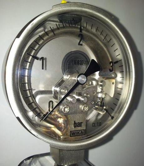 Bourdon tube pressure gauge with a glass front to show the principle of the tube.